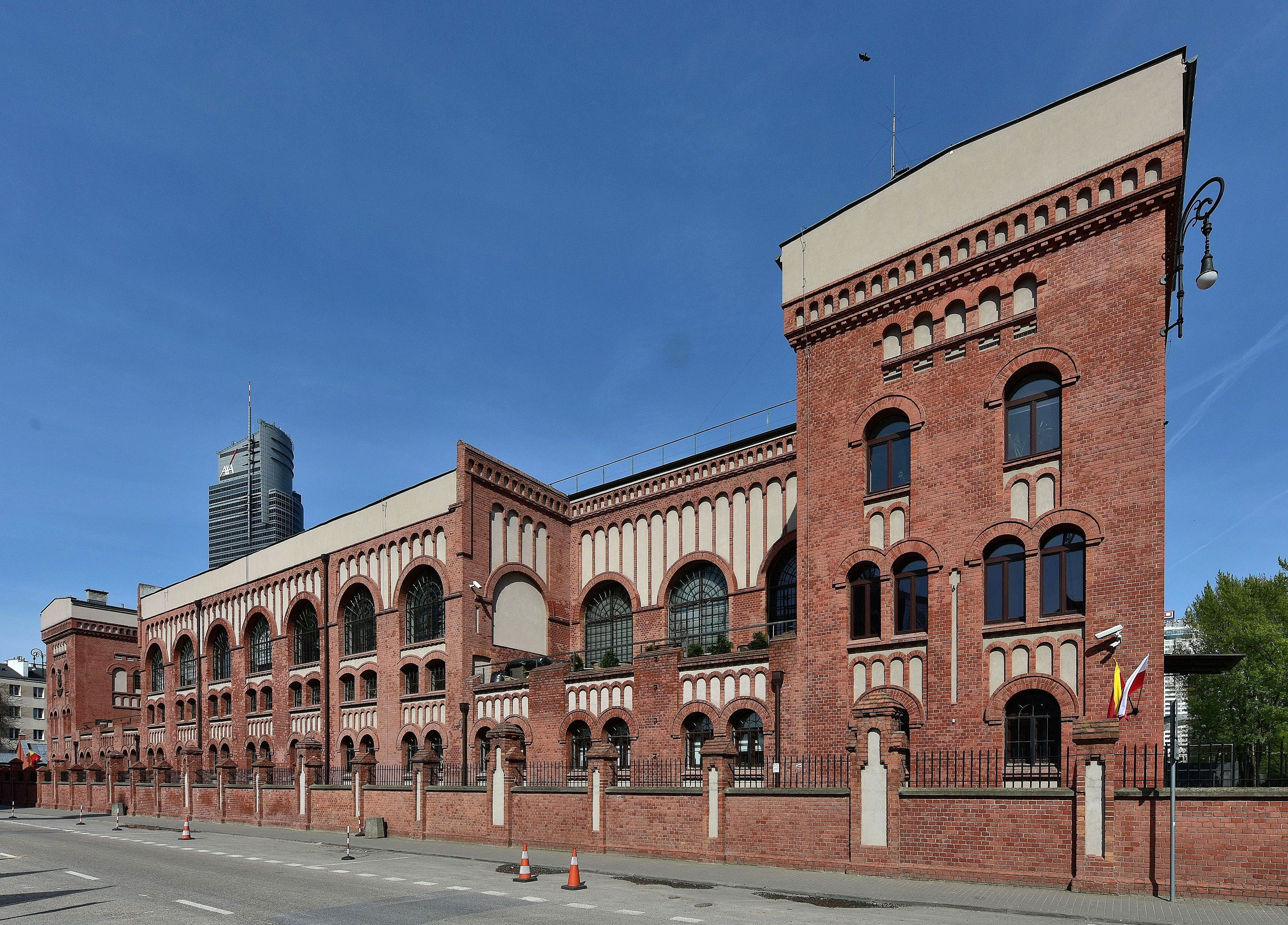 Building of the Warsaw Rising Museum viewed from the Przyokopowa Street